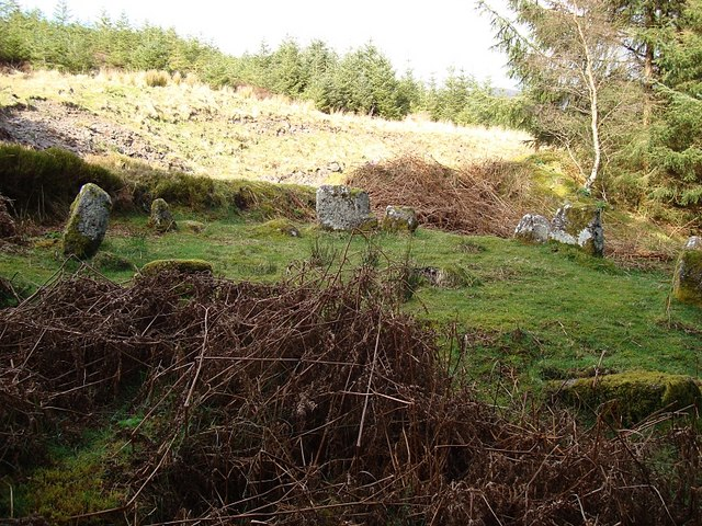 Stone circle Small stone circle, one of the many archaeological features located in this region.